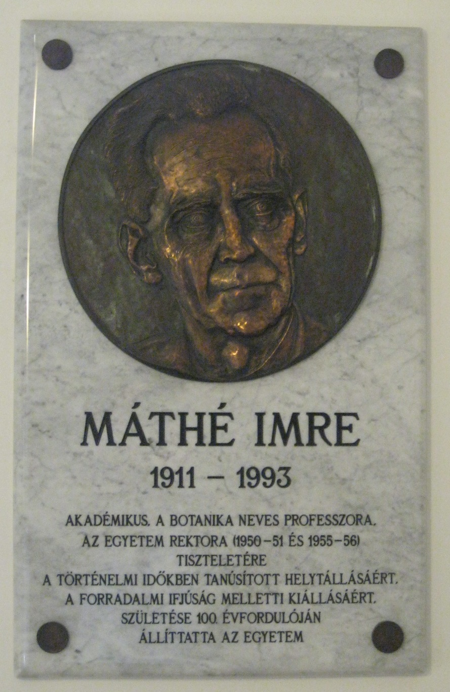 Imre Máthé (botanist) commemorative plaque in Gödöllő. Main Building of University of Gödöllő, Páter Károly Street No 1.